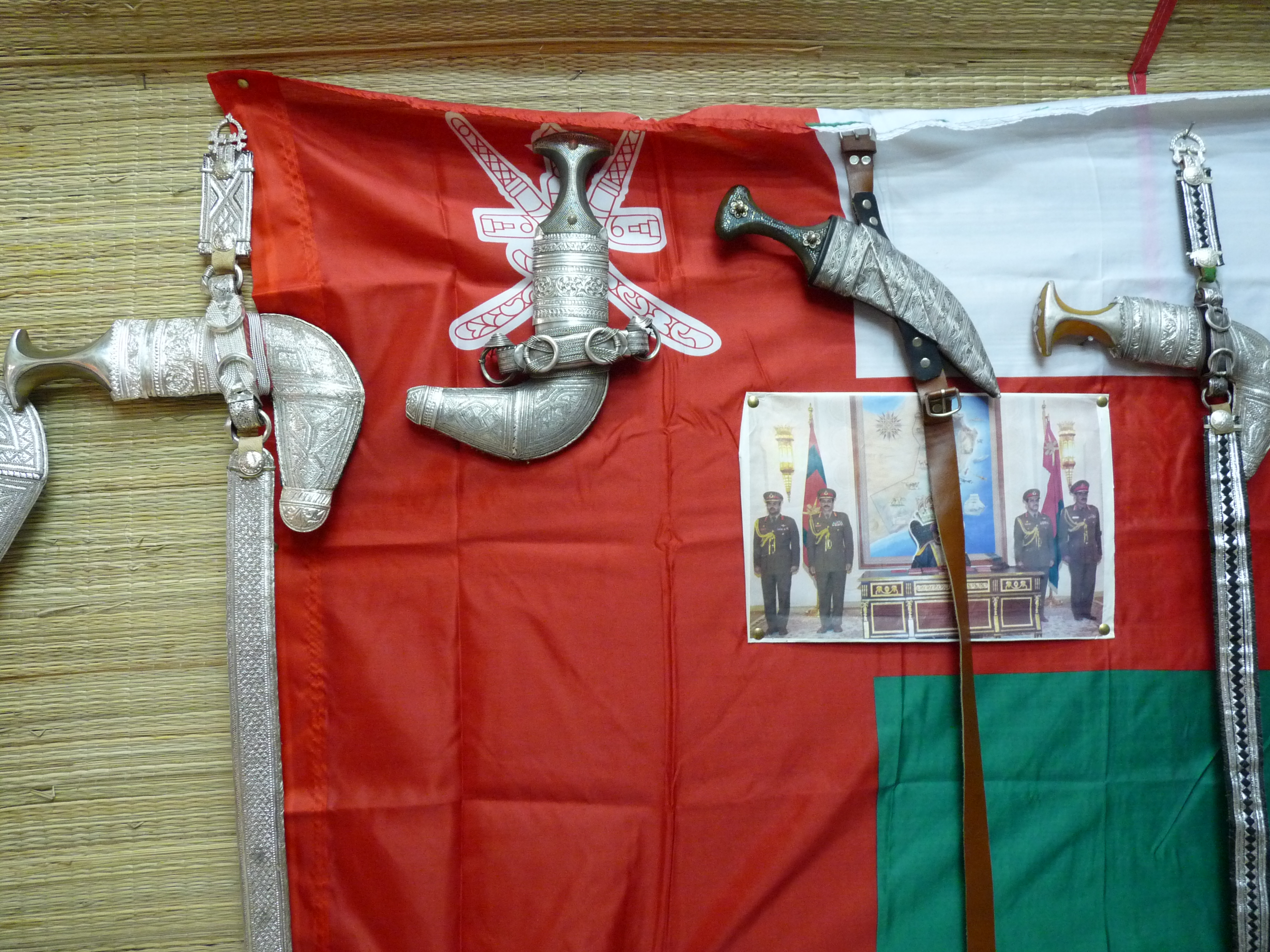 Symbols of Oman (Nizwa)